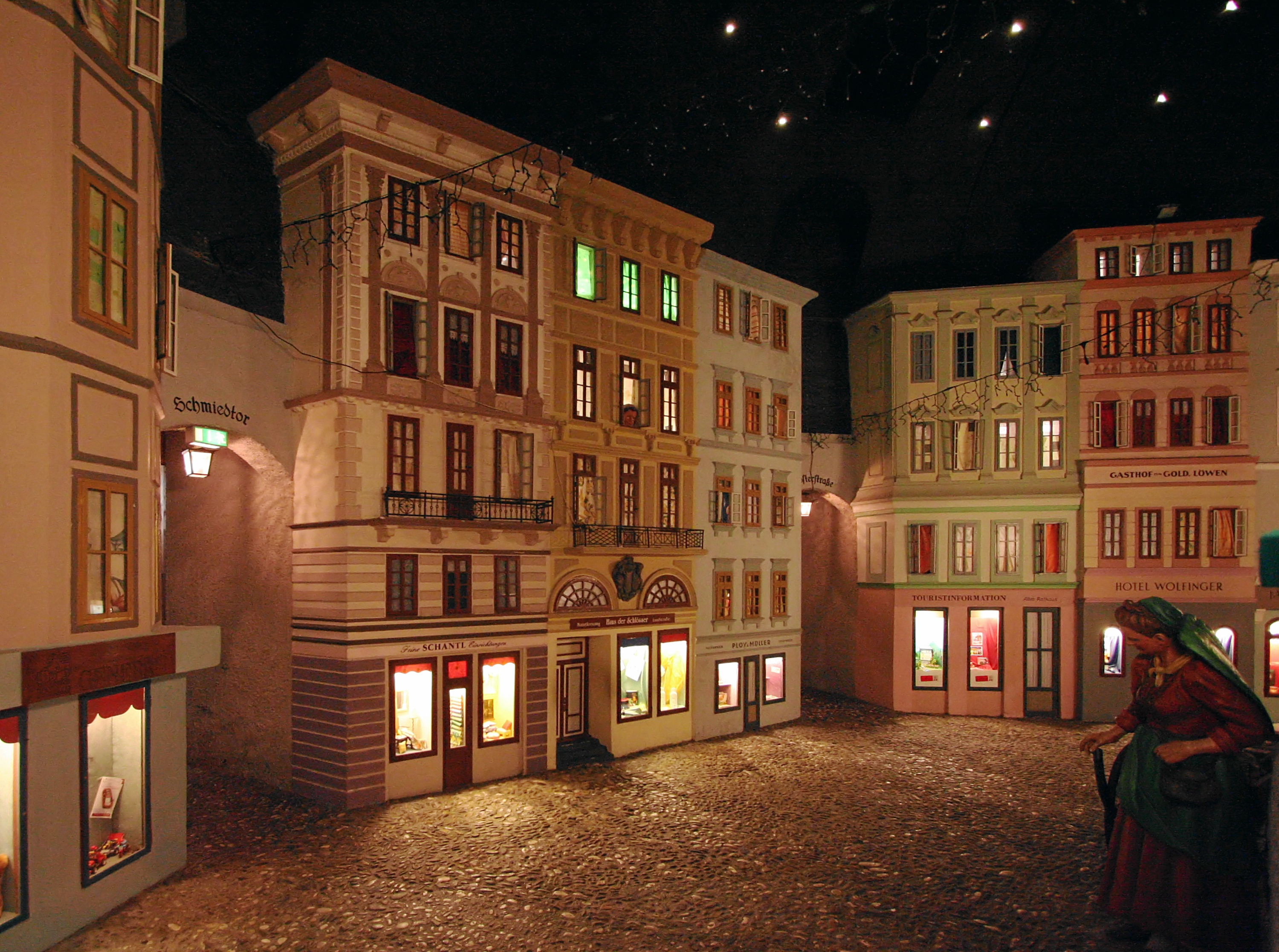 1:7 scale imitation of the main square of Linz, Austria in the basement of the "Grottenbahn" (grotto railway).